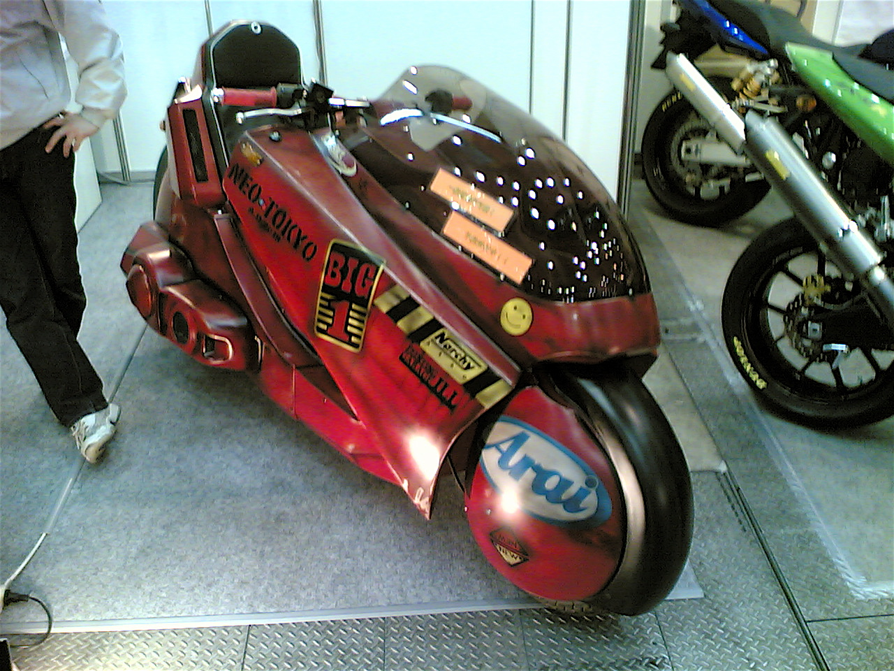 Life size Kaneda motorcycle.